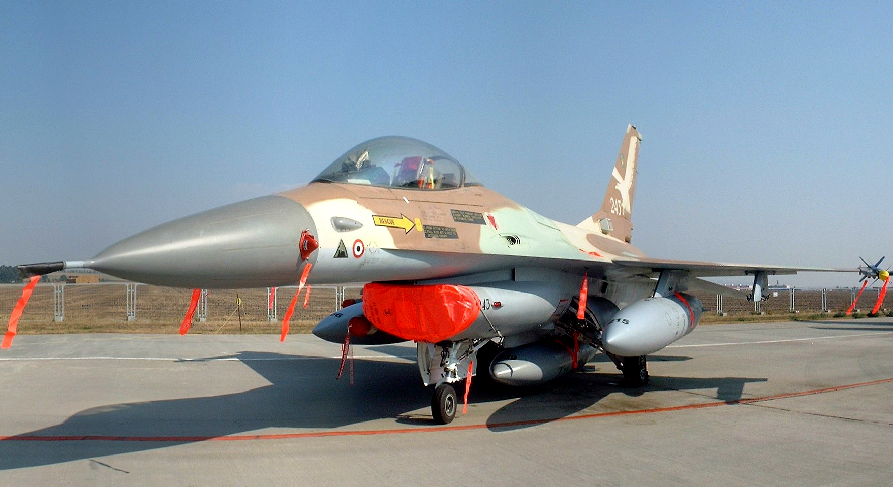 Israeli Air Force F-16A Netz '243', aircraft flown by Colonel Ilan Ramon in Operation Opera. This was the eighth and last to drop its bombs onto the reactor. CIAF Airshow 2004, Brno-Tuřany, Czechia.Thank you so much for this important photo, KGyST!